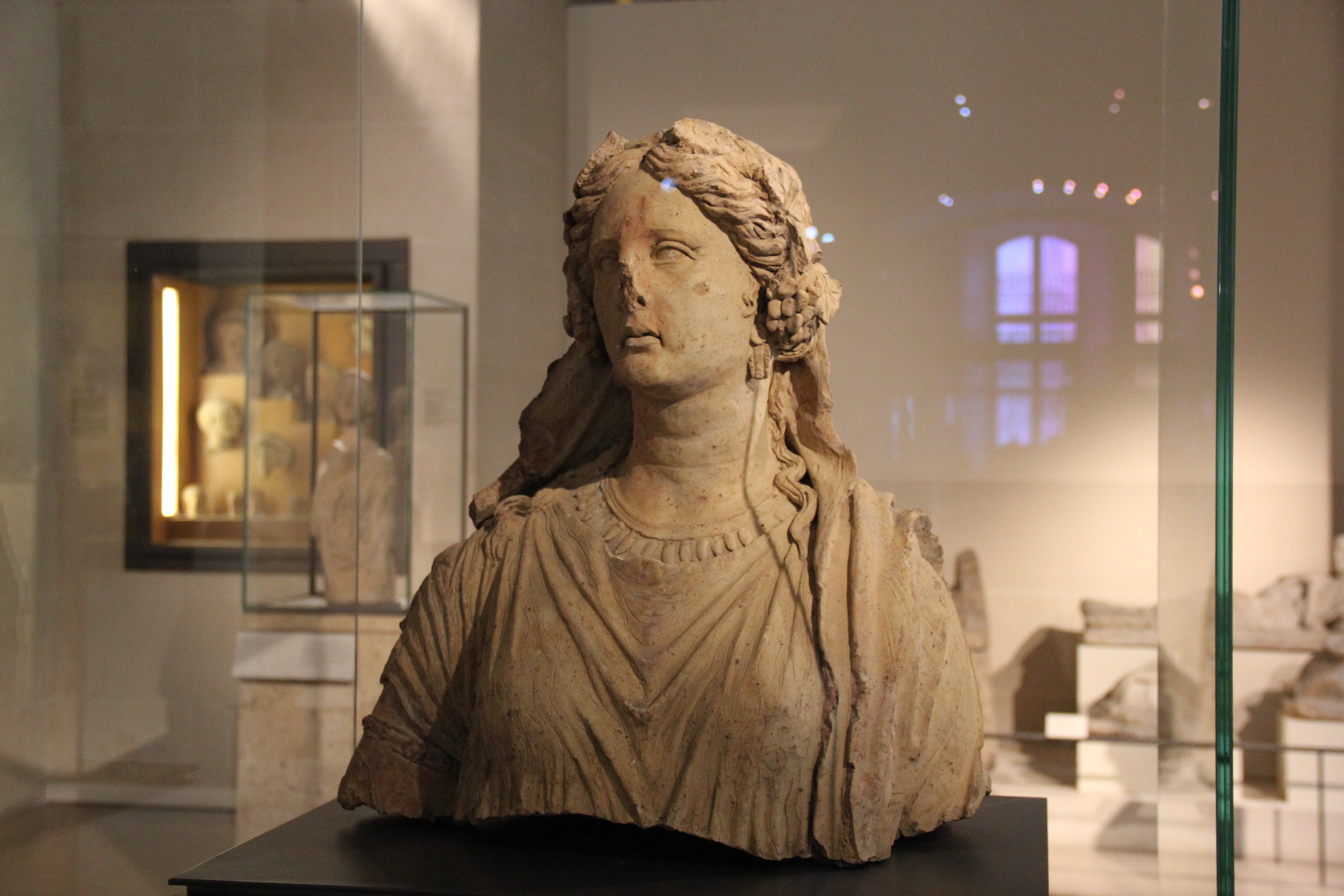 Etruscan terracotta female bust Ariadne 3rd century BC Provenance: Falerii Novi, near present-day Civita Castellana Louvre, Paris